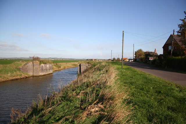 The remains of Station Bridge All that's left of the railway bridge over Hobhole Drain with Station Cottages to the right. Midville Station stood just to the right of the cottages